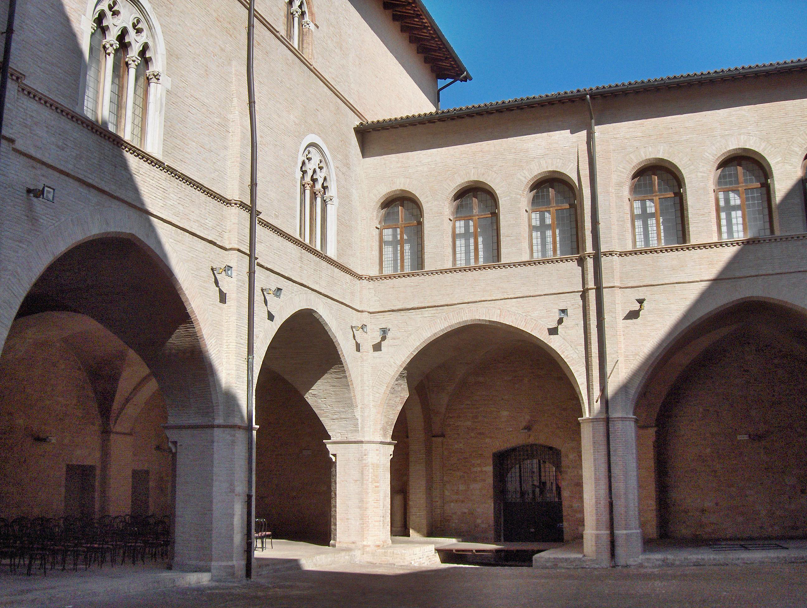 Inner court of the Trinci Palace, Foligno, Italy